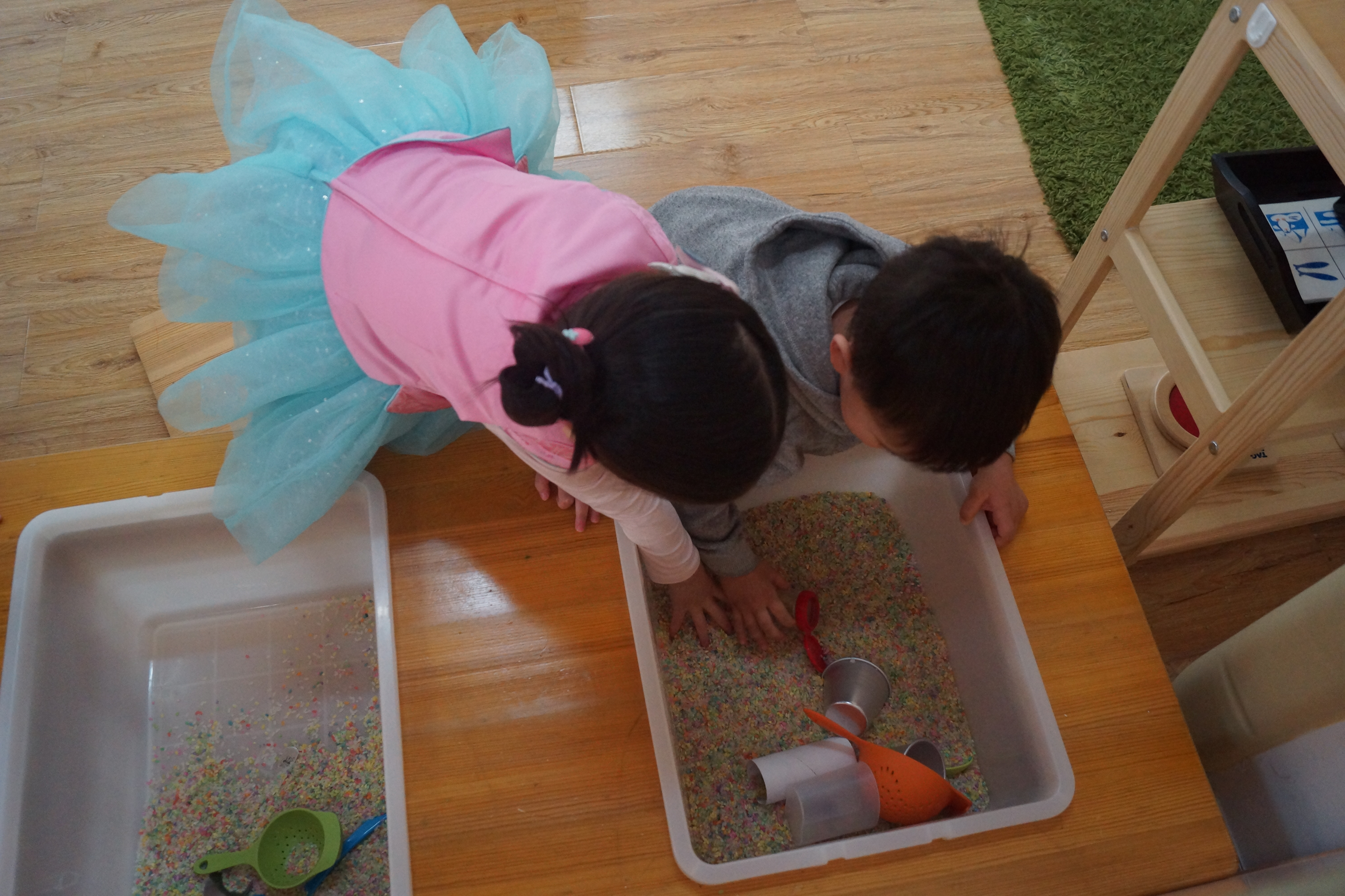 Montessori Toddler students at Qingdao Amerasia International School play with coloured sand to improve their senses.